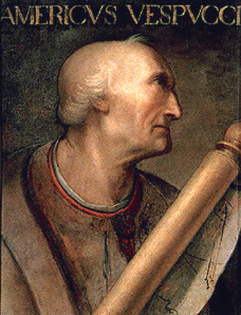 Portrait of Amerigo Vespucci (1454-1512). Possibly painted by Cristofano dell'Altissimo on the basis of an unknown original, although its existence not attested until 1568. No.702 of the collection of Paolo Giovio at the Uffizi in Florence. note